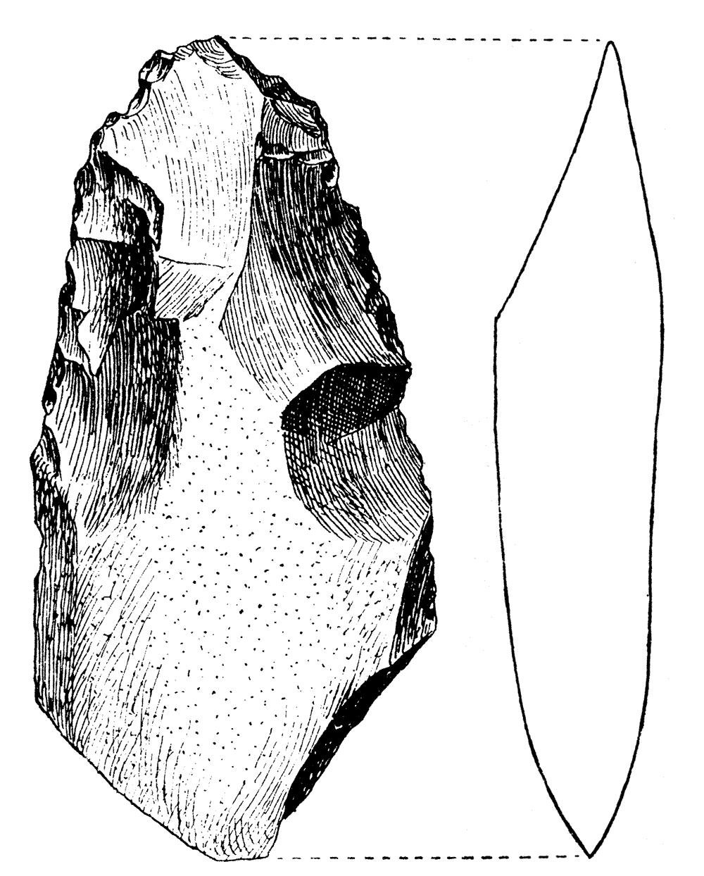 Partial-handaxe from the acheulean site of Parador del Sol, Madrid, Spain (collection Pérez de Barradas)